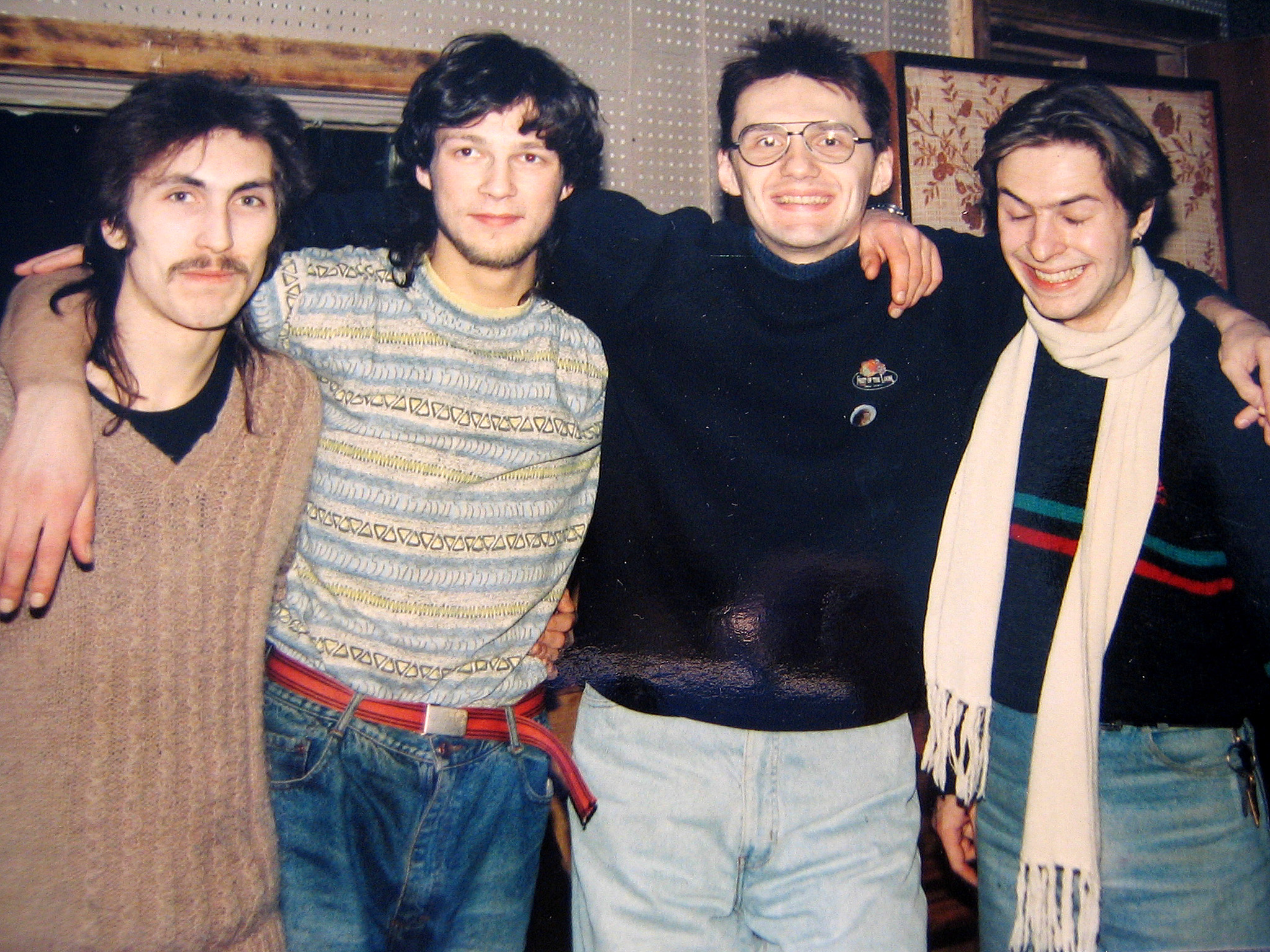 This photograph is a digital reproduction of my original kinofilm shot of the Russian rock band "Nol" (Zero in English), made in 1991 in St. Petersburg, Russia, during a studio rehearsal on the Petrogradskaya Storona of the city. From left to right: Aleksey Nikolayev, Feodor Tshistyakov, Dmitry Gusakov, Georgy Starikov.